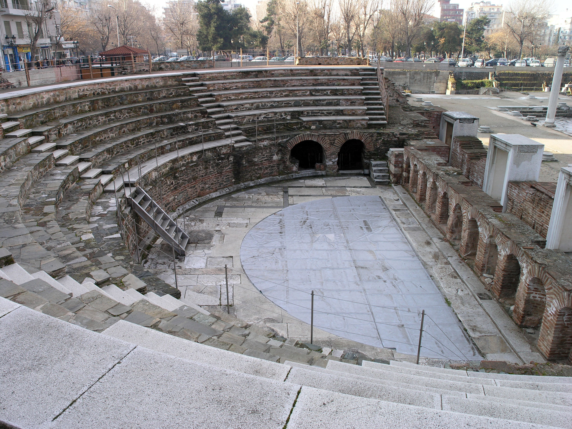 Overview of the Odeum on the East side of the ancient agora in Thessaloniki, seen from the North East. 2nd c. AD. Photograph taken by Marsyas 09:51, 27 February 2006 (UTC)